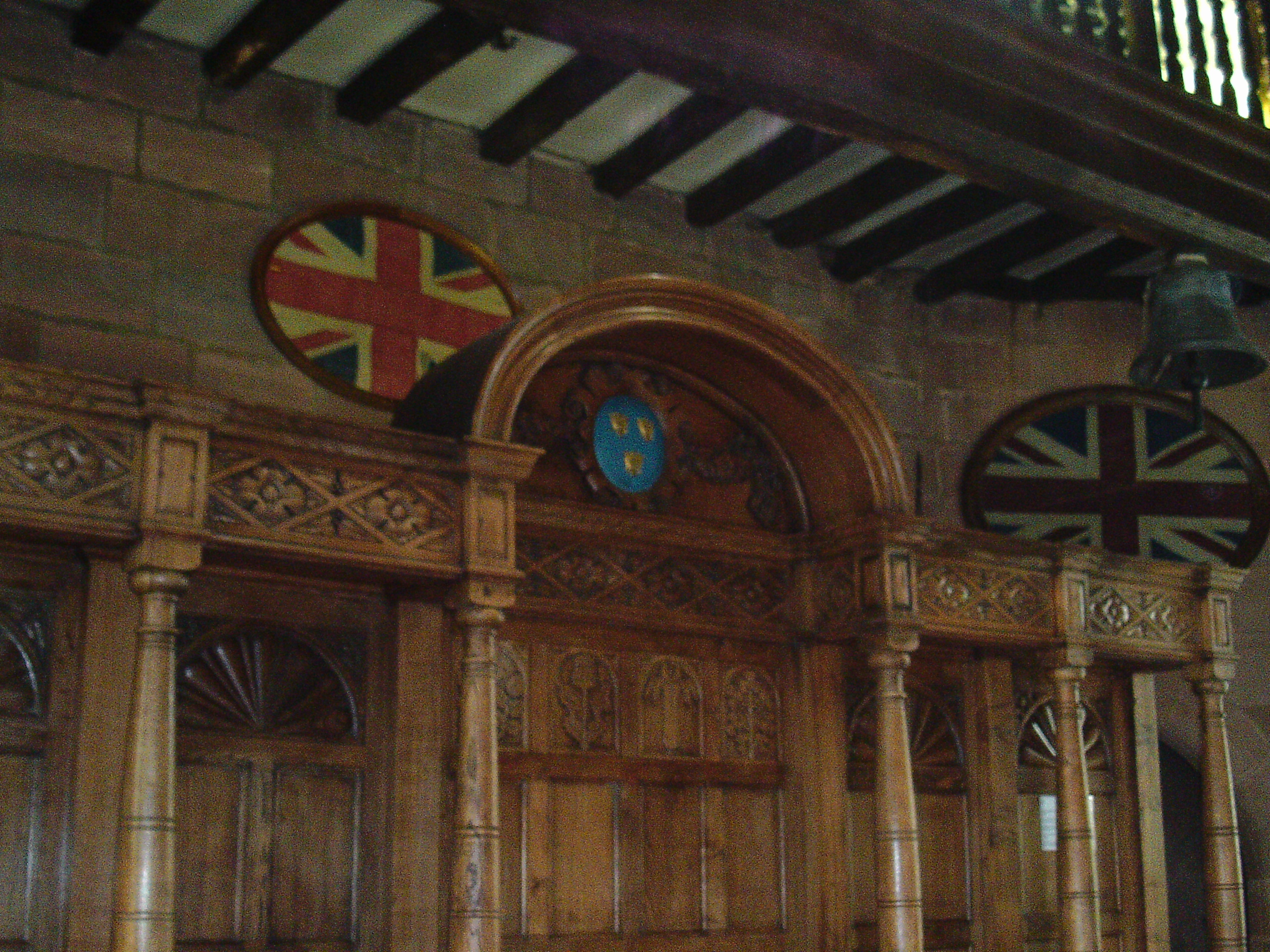 The Mayor’s Dais at Shrewsbury Castle, used when the Great Hall was the county council’s meeting room